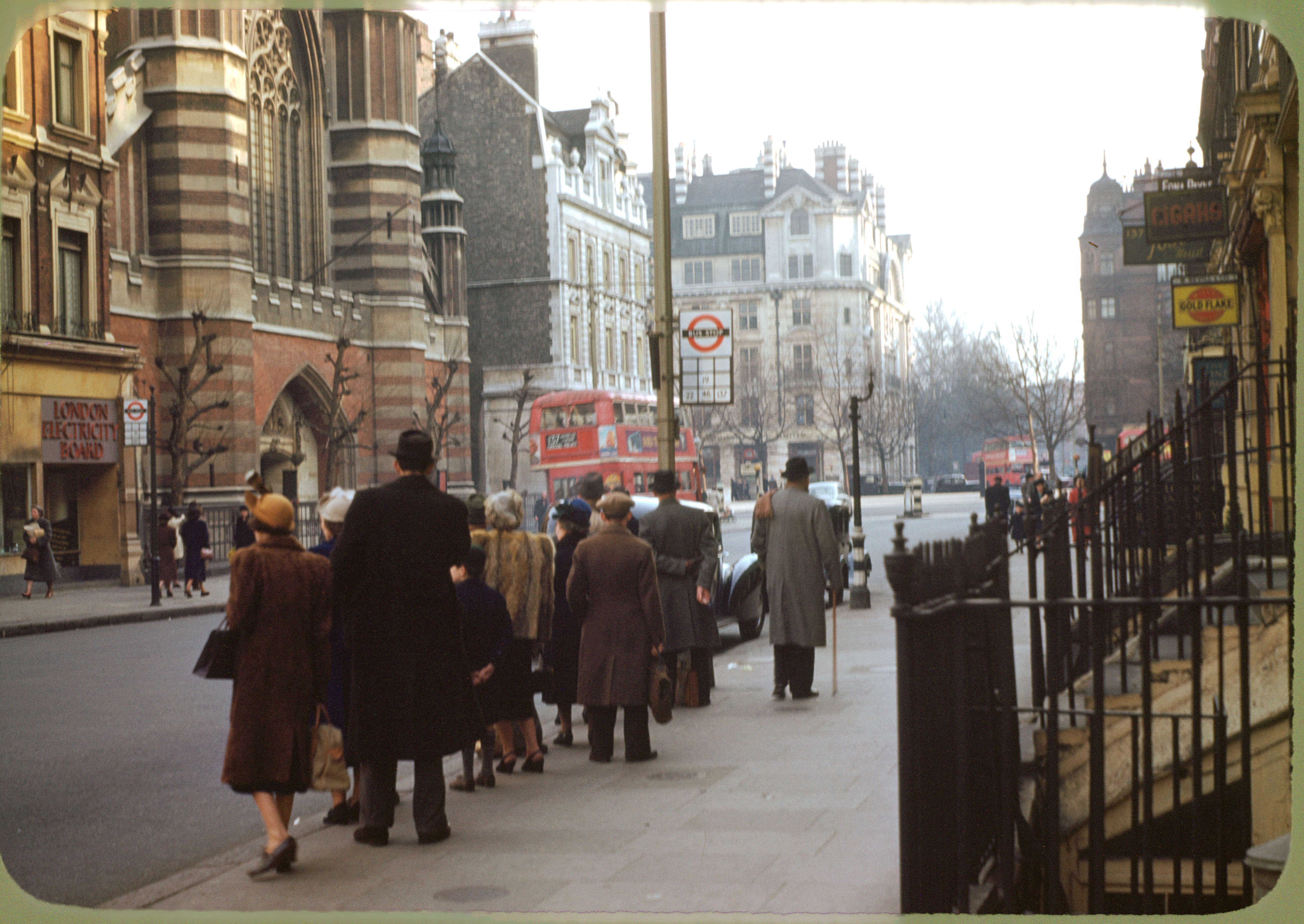 This is Sloane Street, Knightsbridge[1], looking at the Holy Trinity Church[2], and then down to Sloane Square. A 137 bus, a Routemaster, can be seen bound for Crystal Palace (several other Routemasters are in the background, together with classic London cabs and other street furniture of the era), the people in the bus queue are dressed for a winter's morning. Some of the street furniture bears black and white stripes, presumably a left over from the war-time blackout. The Londoners wear typical, but mostly high status clothes of he time including furs, hats for all, and skirts or dresses for the ladies and girls. The boy in the queue is wearing shorts, again as was normal all year round. The gentleman at the front of the queue has removed one glove and is sheltering a lit cigarette behind his back. Four wheels are visible just in front of the bus on the far side, this may be the same bicycle stands there today. The London Electricity Board shop (now Cassandra Goad) has a distinctive sign, after the notable Holy Trinity, which still has a bus stop outside where the 22 can be caught as in the photo, then the current HSBC. Across Sloane Square is the large white building Hugo Boss took over from newsagents W.H.Smith & Son c. 2007, and a view down Lower Sloane Street (possibly as far as the Rose and Crown?) Also on the south side of Sloane square is the now Gieves and Hawkes building (then Gieves and co?) The pavement closest to us shows the cast iron circular covers for delivering coal directly to the houses on the right side of the picture (now Savills and Zadig & Voltaire), with the signs for the tobacconists (now Pringle) "Cigars", "Gold Flake" and others. Other images by this contributor - Use this image as needed, but for uses other than personal, please credit as "Photo by Chalmers Butterfield".